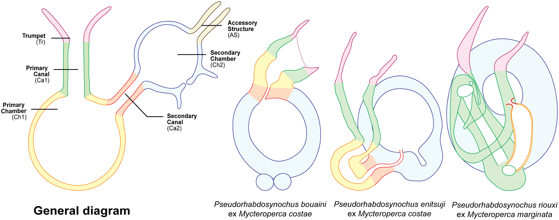 Figure 9 of paper Homologies of the various parts of the sclerotized vaginae of species of the ‘Pseudorhabdosynochus riouxi group‘, illustrated by coloured diagrams. The same colours are used in each diagram for the same parts, to show homologies between species. The nomenclature of vaginal parts and the general diagram are from Justine (2007). All vaginae drawn with similar sizes—magnifications vary.